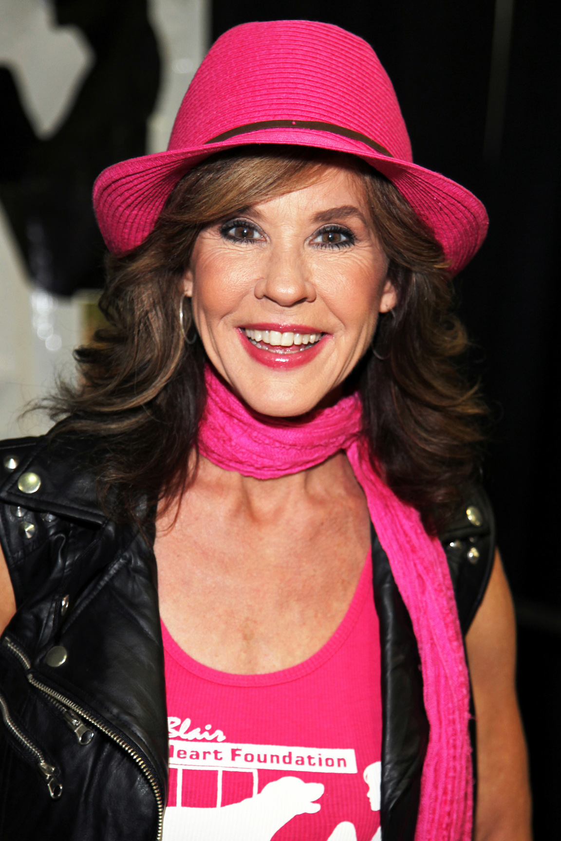 Linda Blair, Los Angeles, CA, on September 16, 2012 - Photo by Glenn Francis of